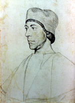 John Colet, English churchman and educator